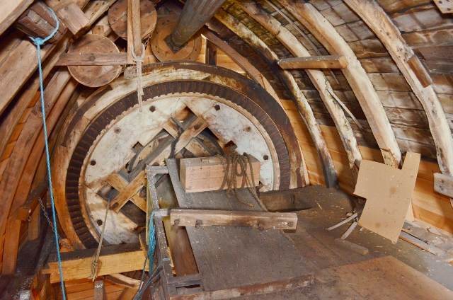 Ashdon Windmill - Brake Wheel, Data from Geograph: Description: The dust floor and top of the mill, this is a top and tail mill meaning two brake wheels. One here and one smaller one behind me. ICBM: 52.058371839659, 0.32520790943192 Location: (about 0 km from) near to Steventon End, Cambridgeshire, Great Britain.